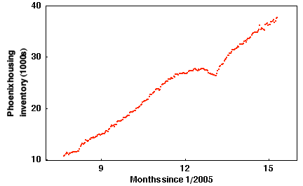 Inventory of houses for sale in Phoenix, AZ from July 2005 through March 2006. As of 10 March 2006, well over 14,000 (nearly half) of these for-sale homes are vacant [1]. (Source of data: Arizona Regional Multiple Listing Service.) I, the creator of this plot based on data published by Arizona Regional Multiple Listing Service, release it to the public domain. Frothy 20:27, 29 June 2007 (UTC).